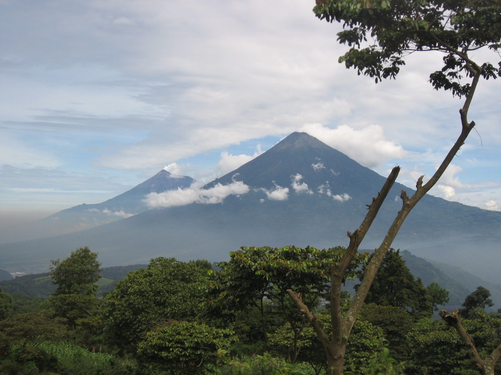 Photo of Volcán de Fuego (left) and Volcán de Agua (right). Volcán Acatenango lies hidden behind the Volcán de Agua.